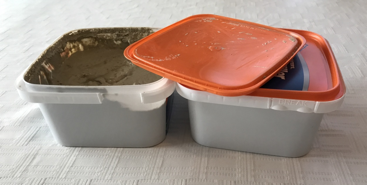 tubs and lid with security feature